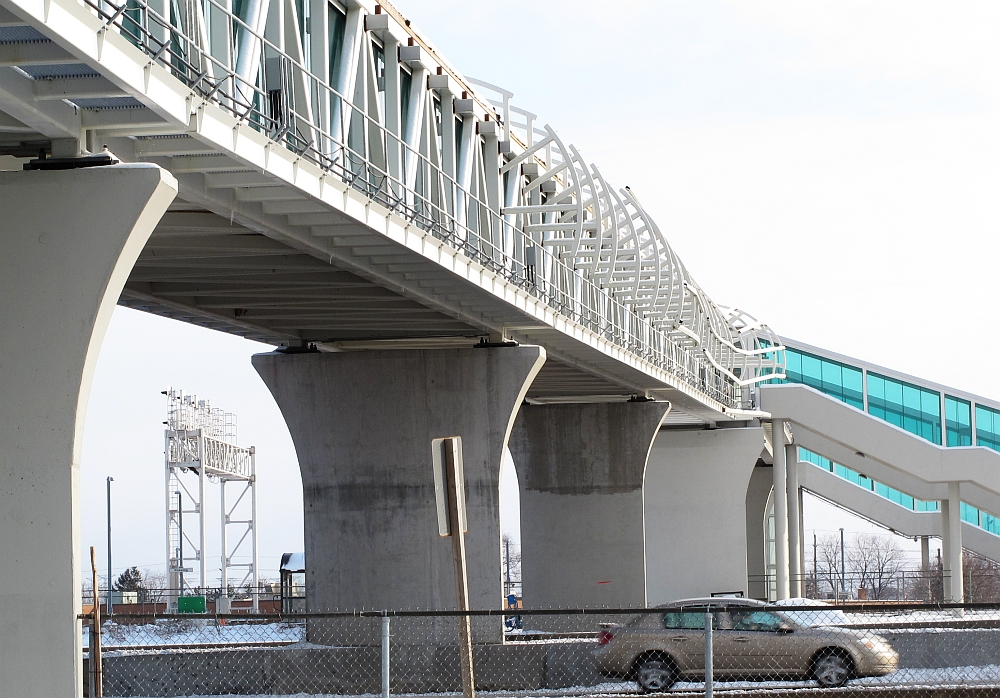 Highway 401 at Pickering GO Station